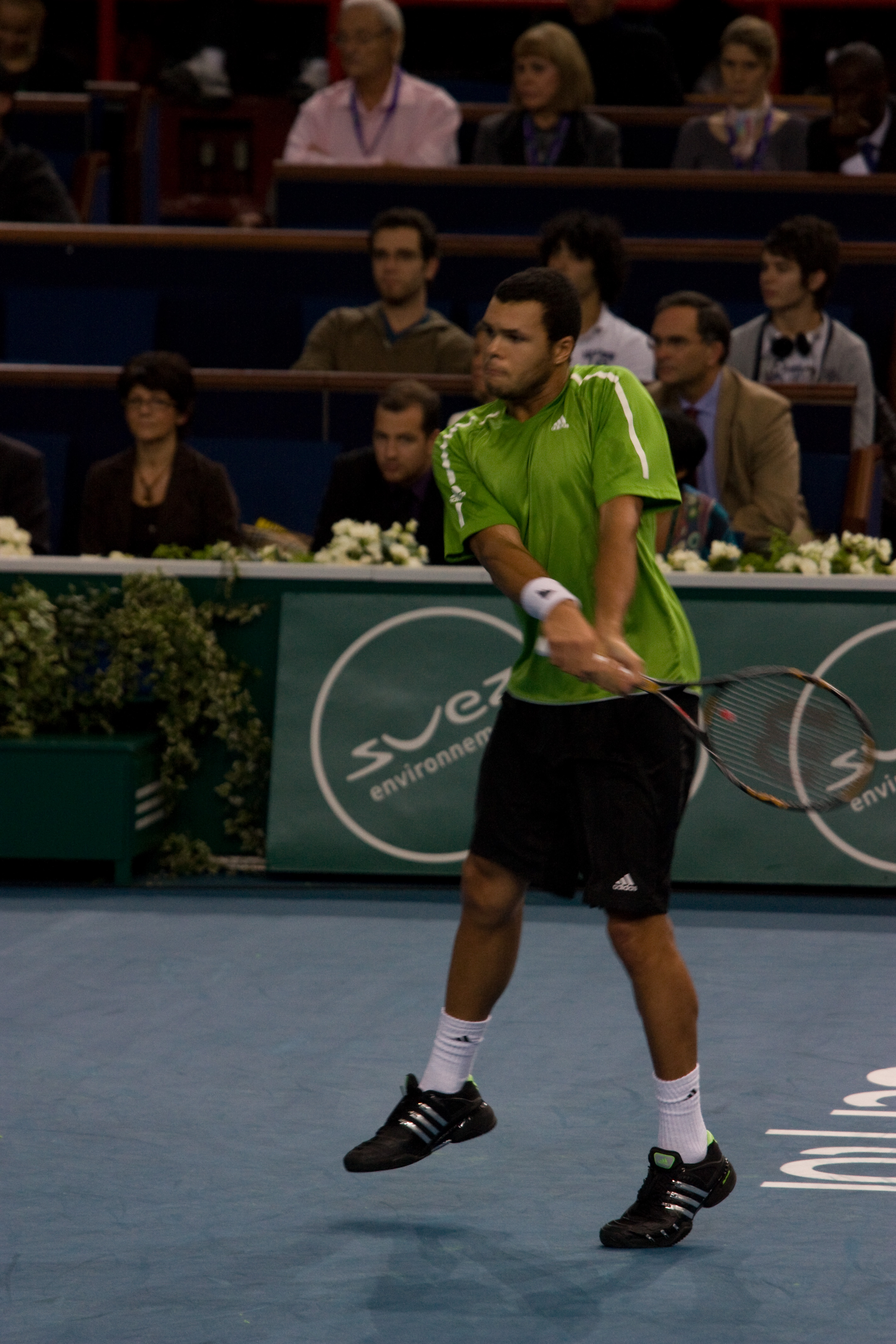 Jo-Wilfried Tsonga against Radek Stepanek at the 2008 BNP Paribas Masters